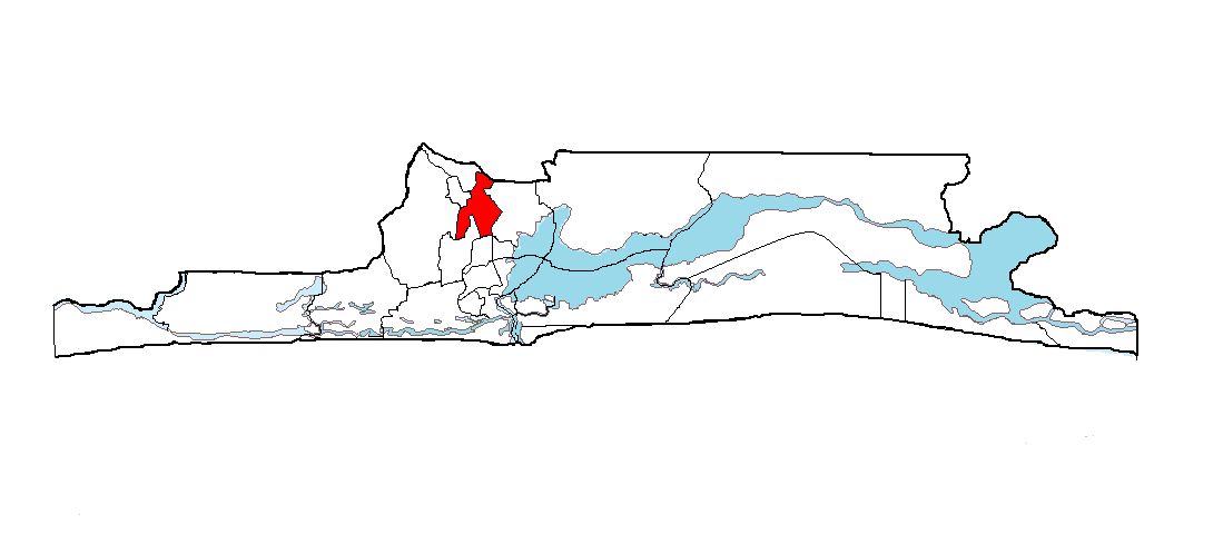 Location of Ikeja in Lagos State